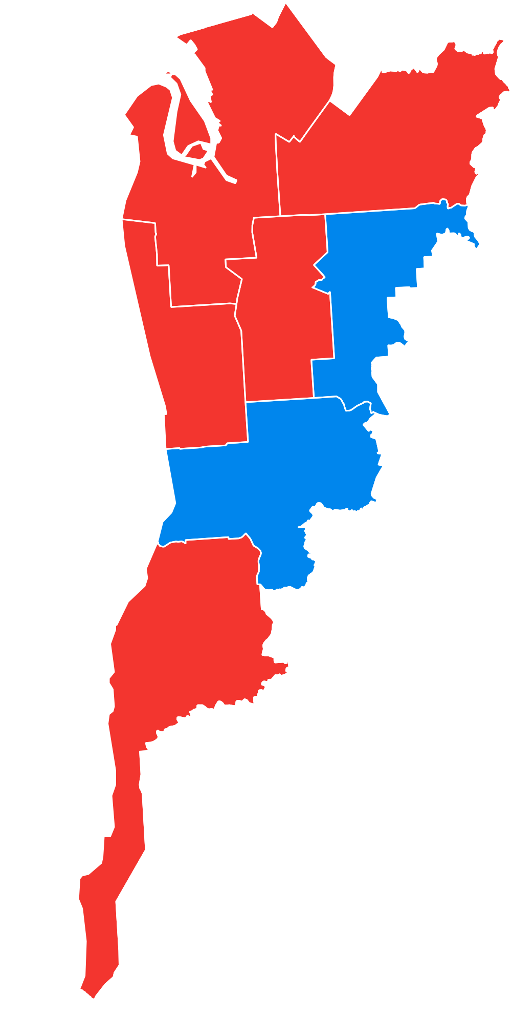 Results map of the Australian federal election, 2016 in Adelaide, showing federal electorates decorated in the color representing a win by a particular party.